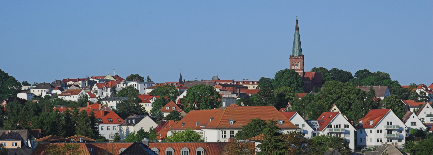 Bergen auf Rügen - panorama from west